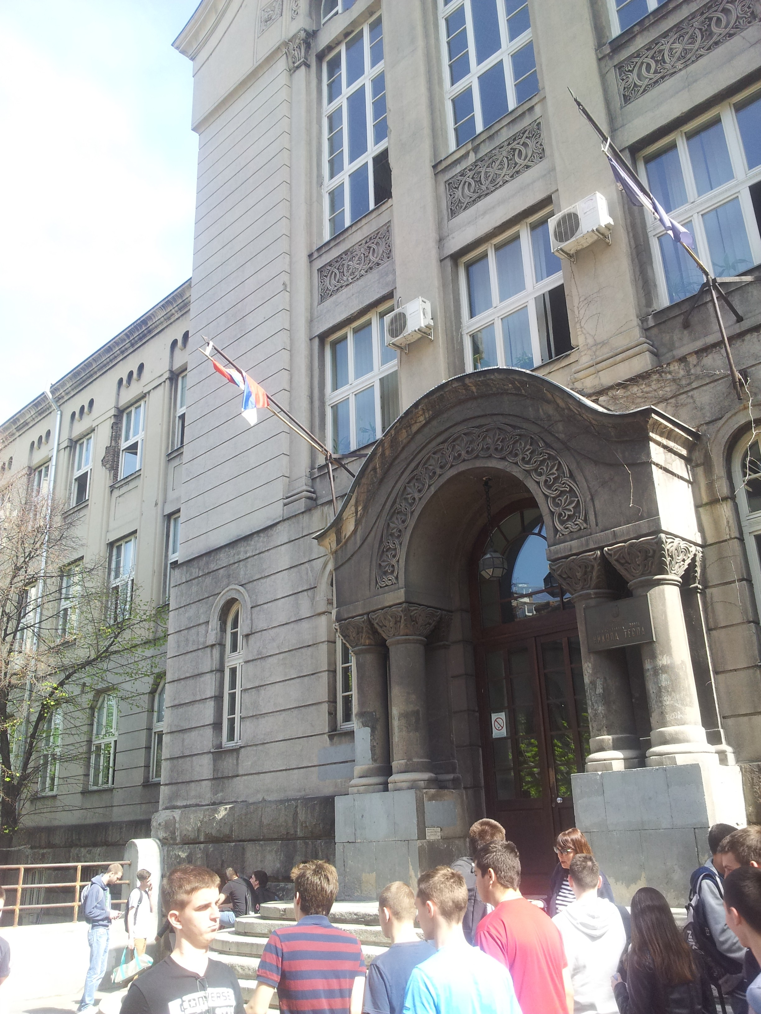 Nikola Tesla Highschool in Belgrade